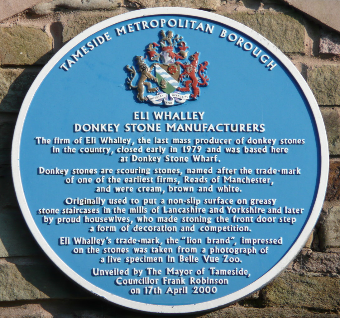 Eli Whalley commemorative blue plaque, Ashton-under-Lyne. This image represents an Open Plaques entry #7989.